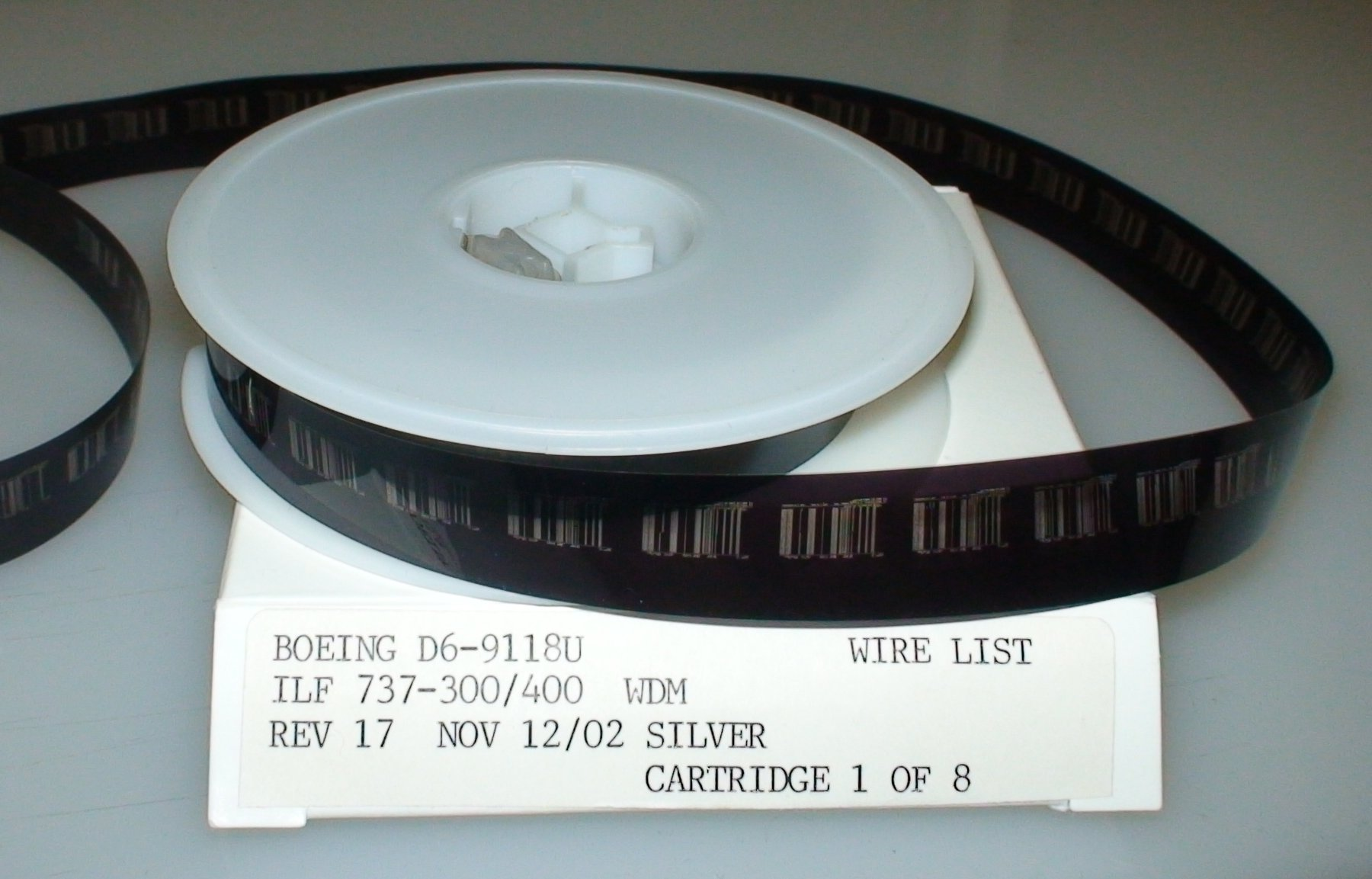 A microfilm roll of negative/COM Output.